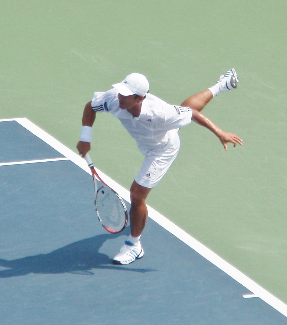 Hyung Taik Lee South Korean Tennis Player at US Open